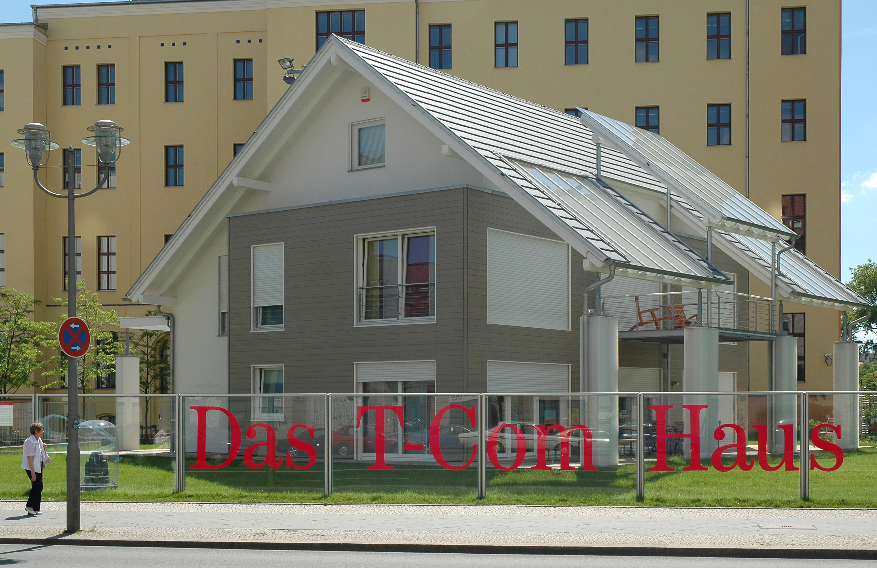 The "T-Com House" in Leipziger Str., Berlin. It was designed to demonstrate state-of-the-art home automation.